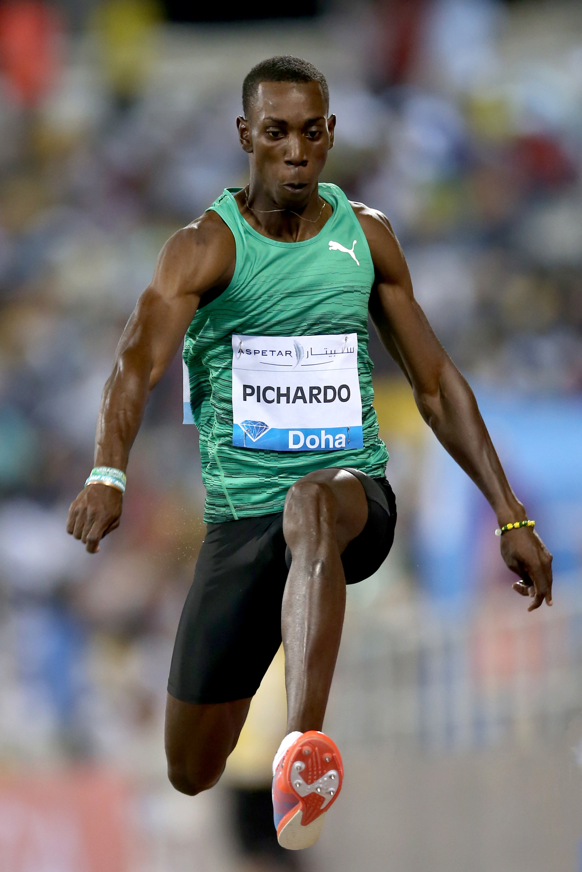 Cuban triple jumper Pedro Pablo Pichardo en route to gold at the Doha Diamond League meeting. Pic by Mohan